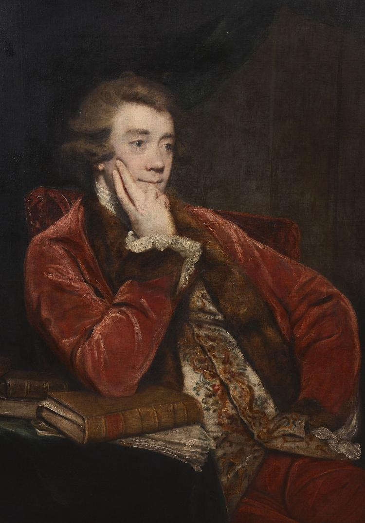 Portrait of George Bridges Brudenell (1726–1801), English politician.